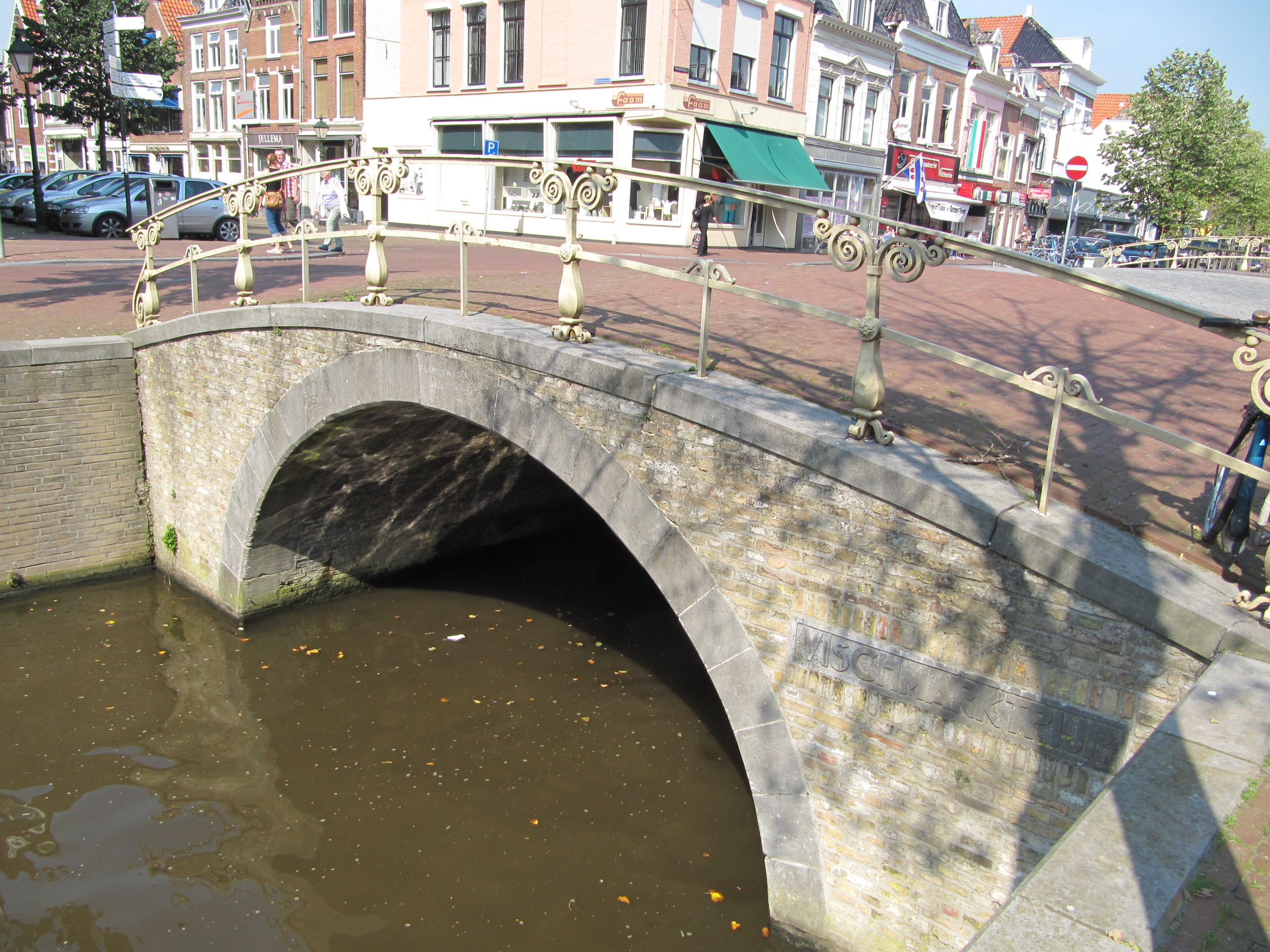 Vischmarktpijp , Voorstreek/Wortelhaven